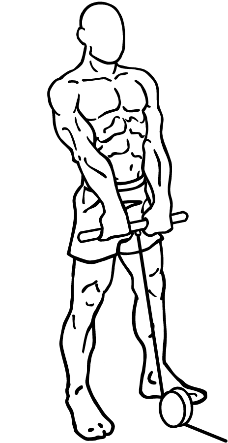 an exercise of shoulders